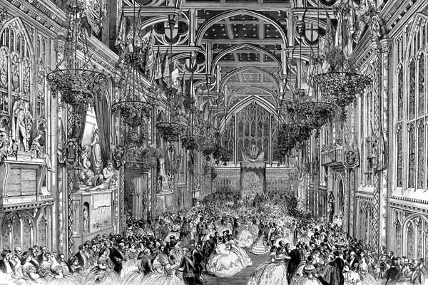 An event at the Guildhall in London, England attended by Queen Victoria.